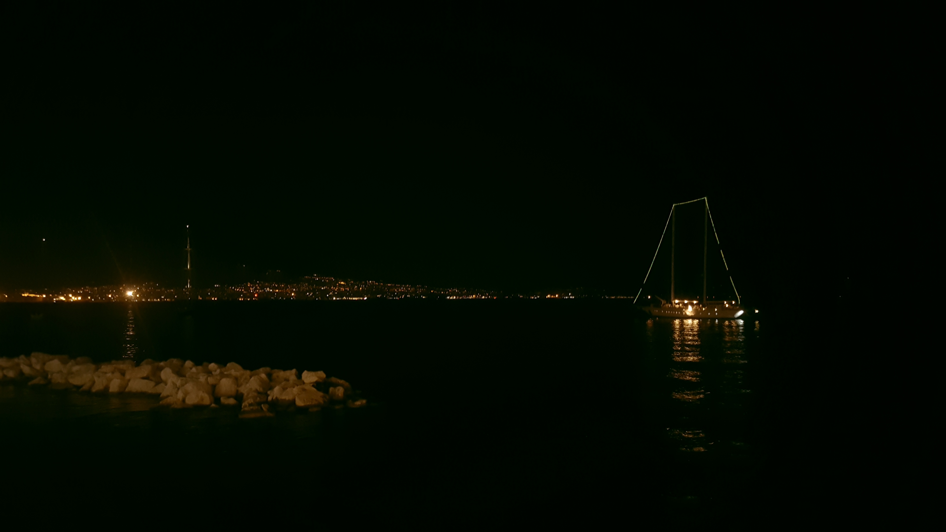 This image was taken during the night at 9:45 pm, across the bay of Naples.